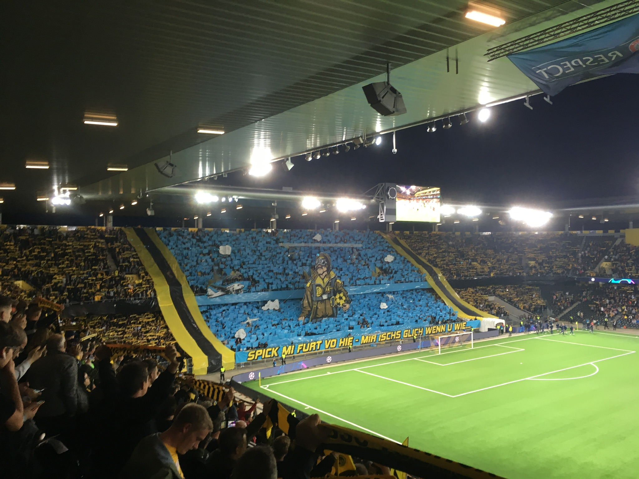 The Wankdorf Stadium before a Champions League Play Off Match between BSC YB and Red Star Belgrade in 2019